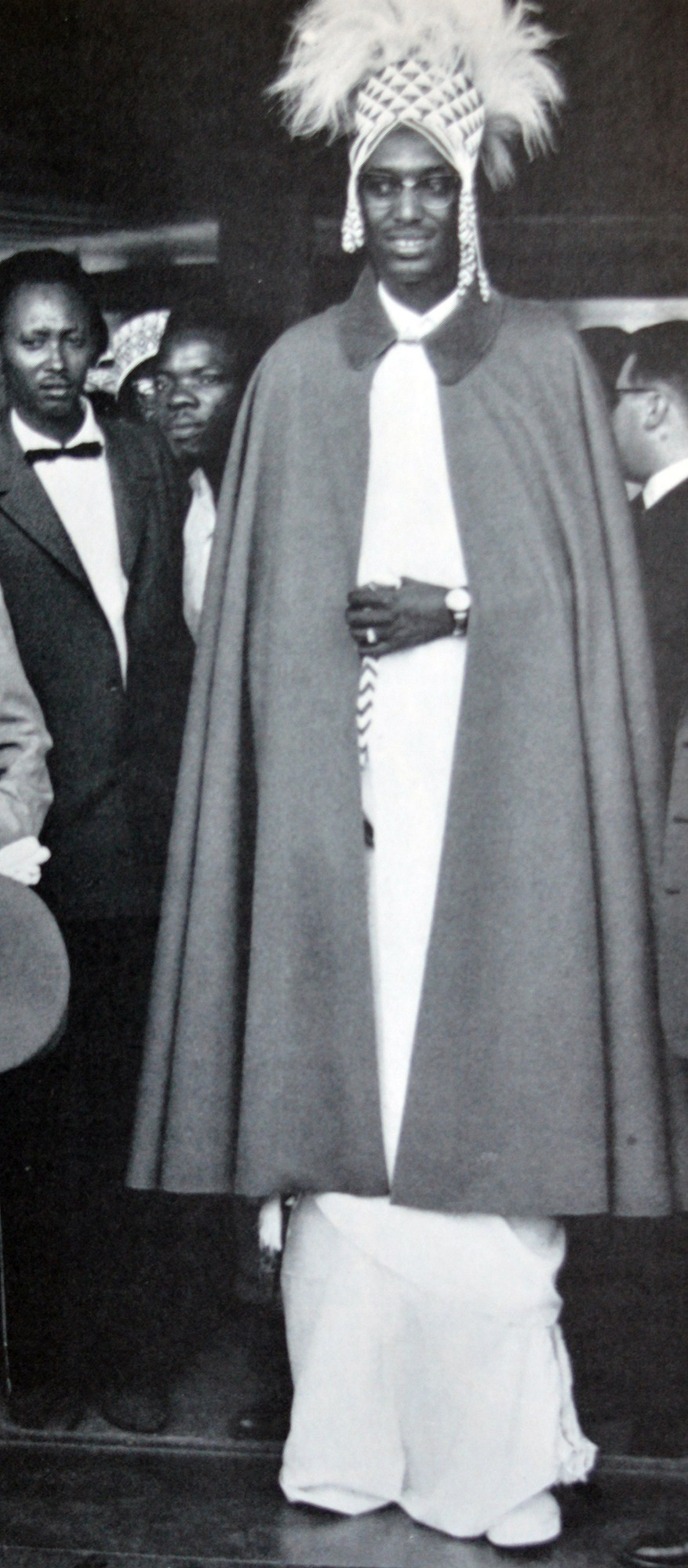 Kigeli V Ndahindurwa was the ruling King of Rwanda from 1959 until 1961.